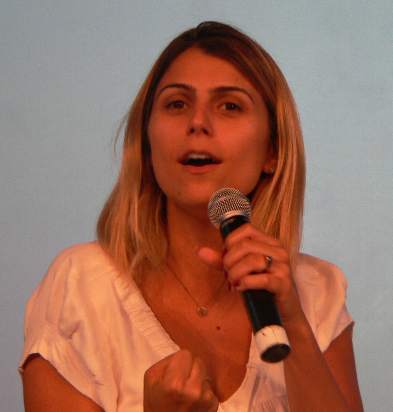 Deputy Manuela d'Ávila discussing the Brazilian Marco Civil da Internet at the 6th edition of Campus Party Brazil.